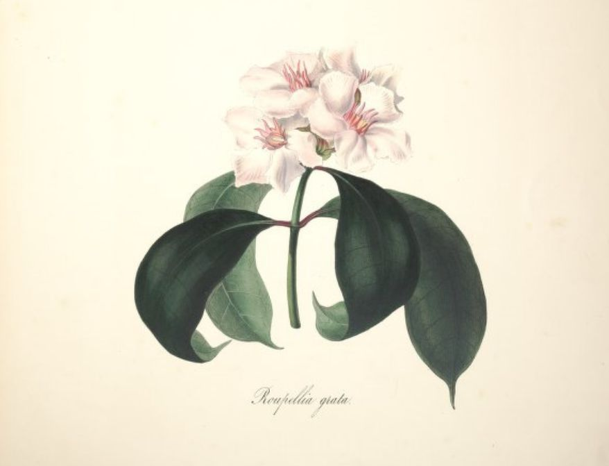 Roupellia grata Wall. & Hook. is a synonym of Strophanthus gratus (Wall. & Hook.) Baill.